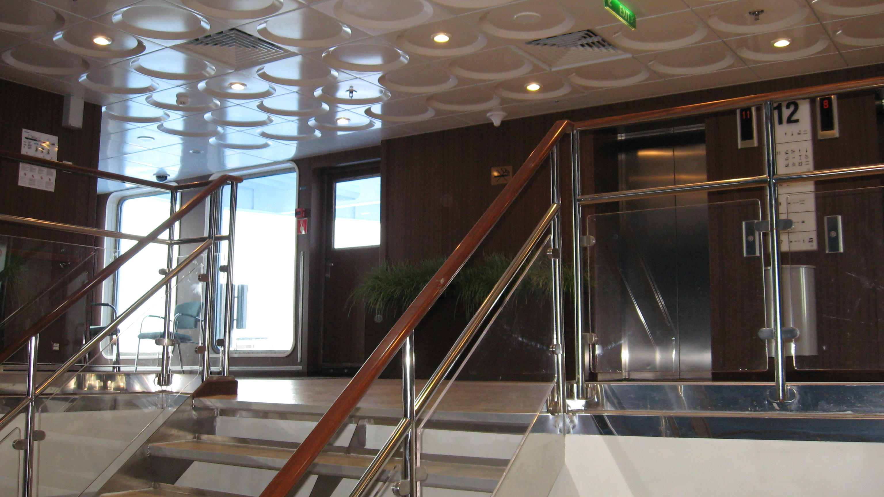 View to deck 12 in Finnish cargo ship M/S Finnlady.